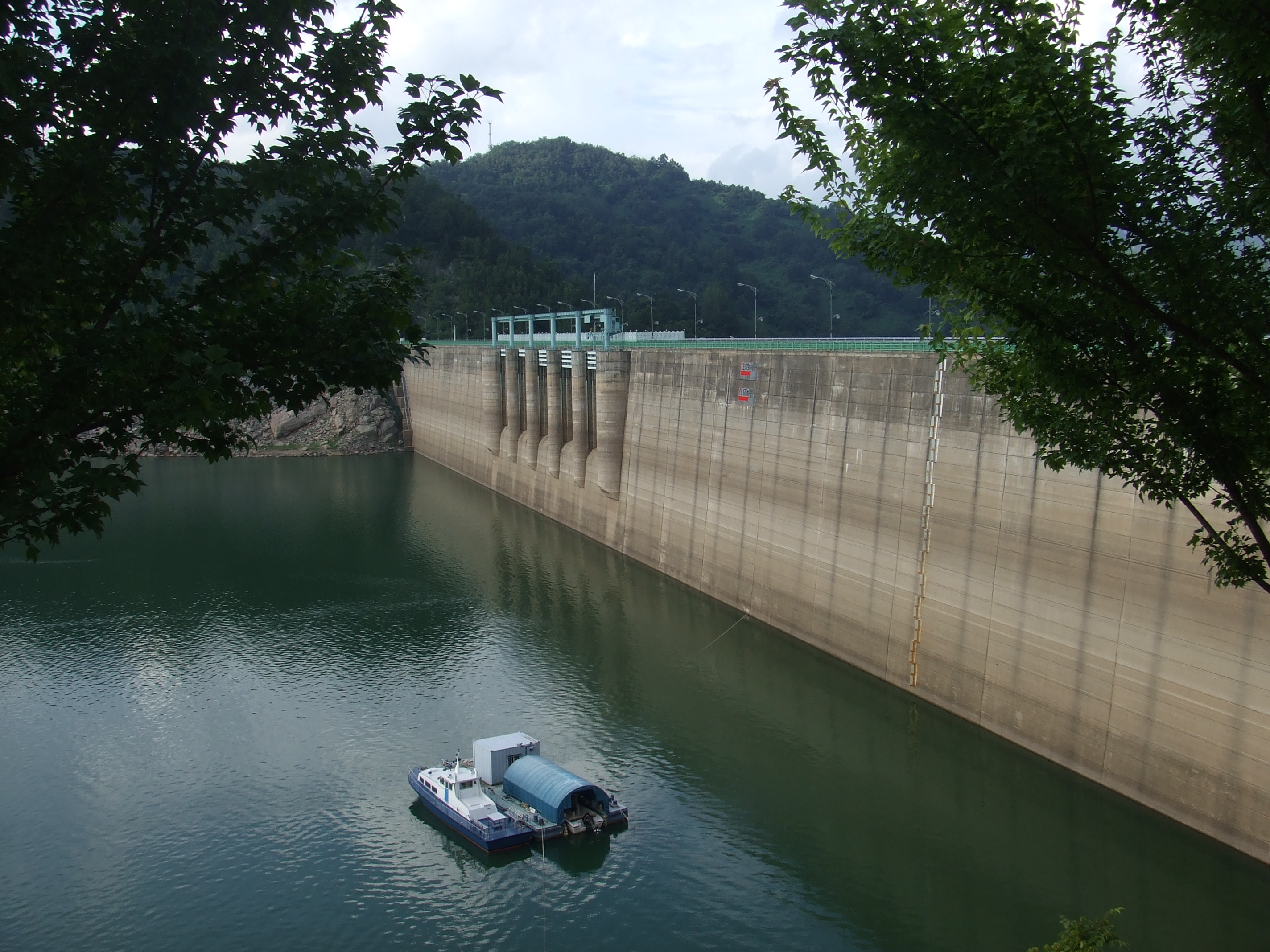 Hapcheon Dam.